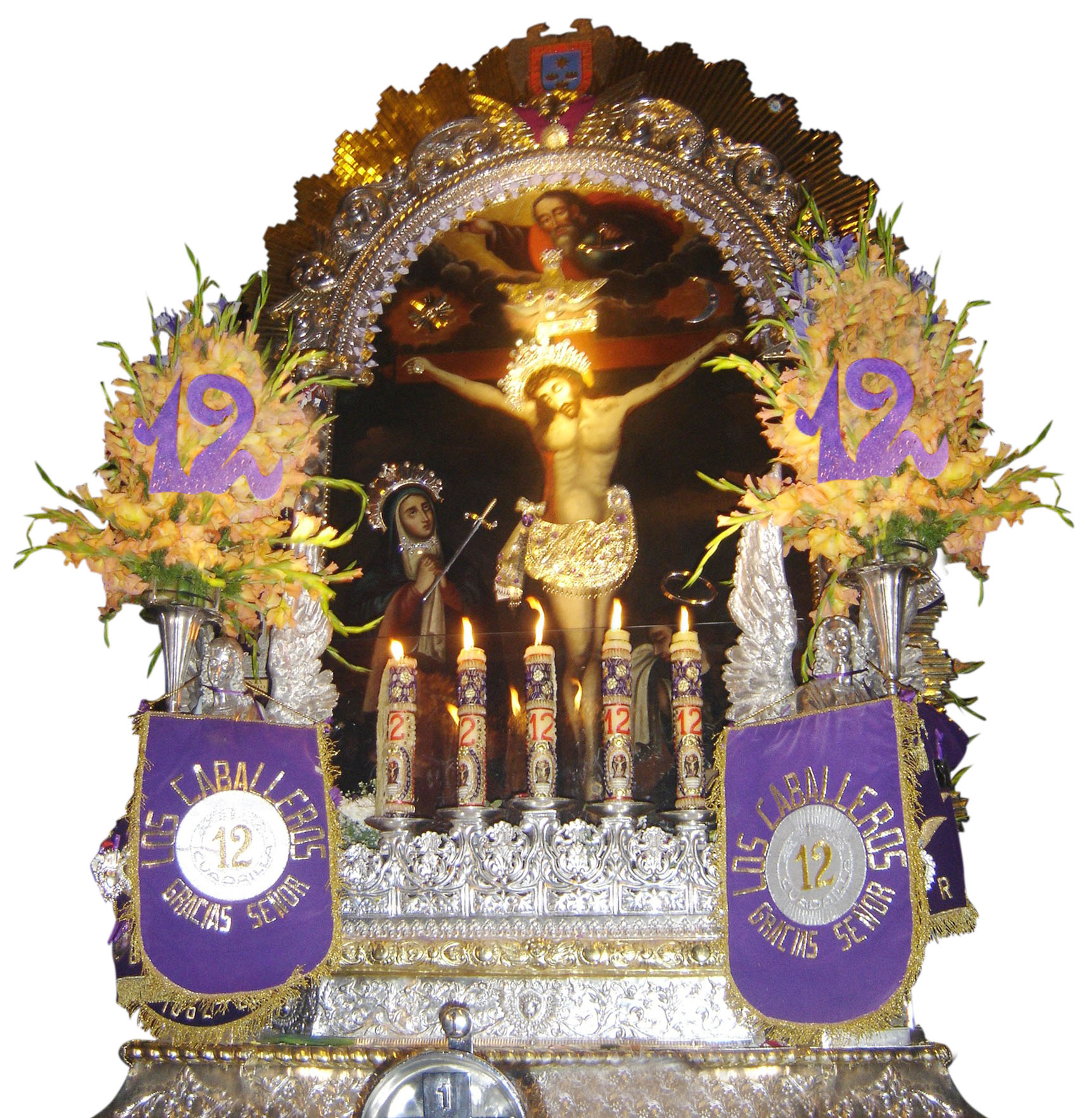 Subject: Señor de los Milagros de Nazarenas City: Lima Country:Peru Shot date:October, 18th, 2004 Photographer: Miguel Chong